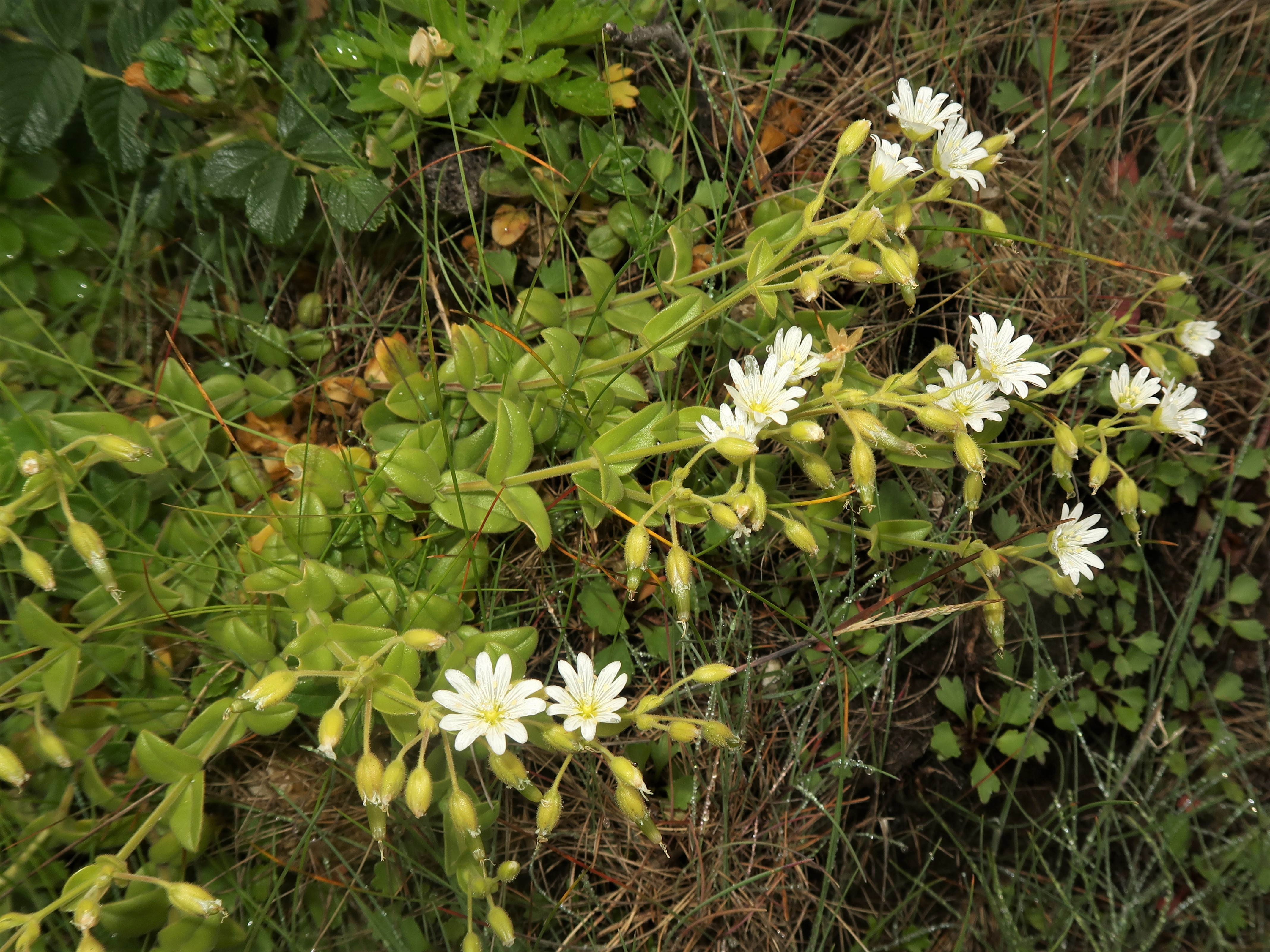 Cerastium fischerianum, Shimokita Peninsula, Aomori pref., Japan